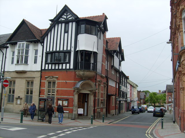 The Robert Owen Museum and town council office The town council offices Broad Street Newtown